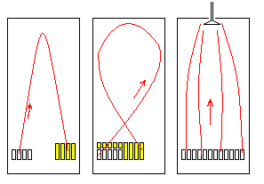 three types of scavenging of two stroke engines